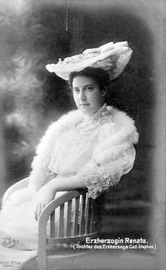 Archduchess Renata of Austria Teschen, Princess Radziwill